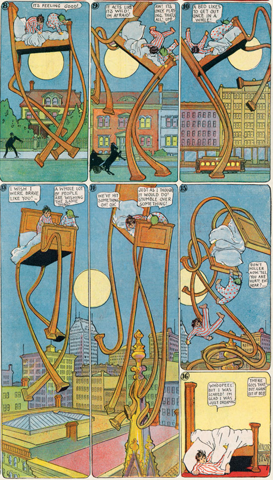 Little Nemo in Slumberland (1905-1914)